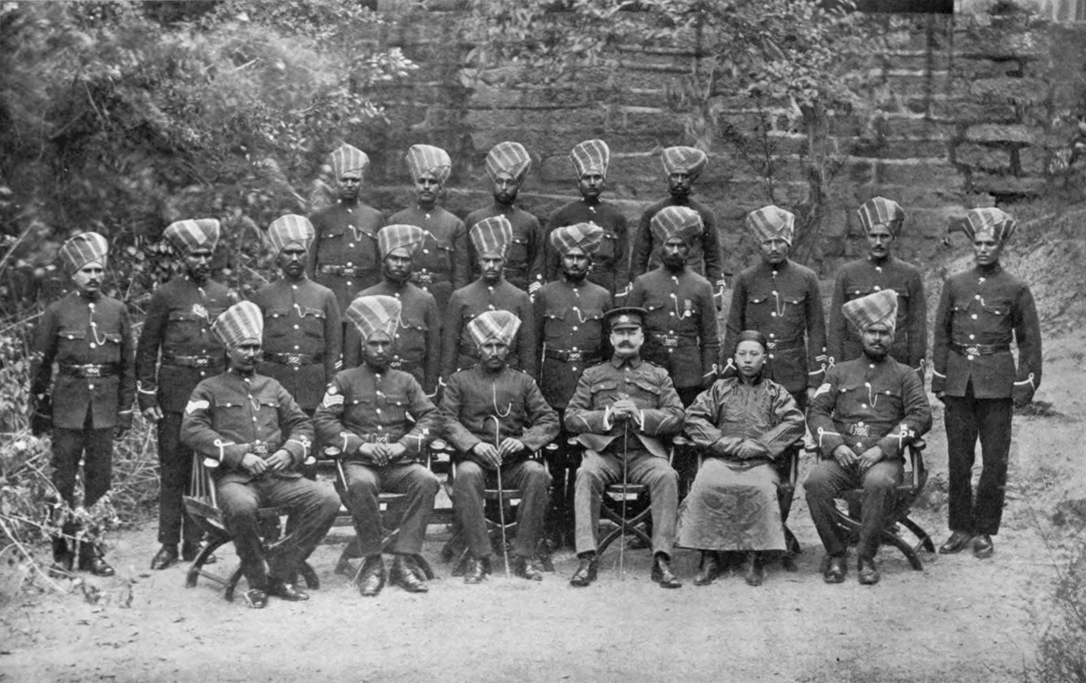 Municipal police in the International Settlement of Kulangsu (Gulangyu), Amoy.